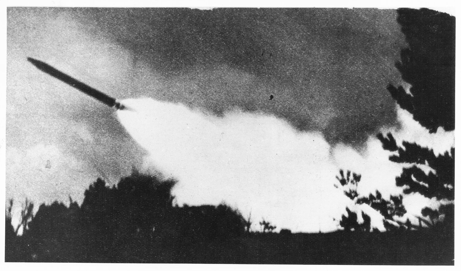 The rocket being fired Soldiers of the 41st Tactical Rocket Battalion (41 Dywizjon Rakiet Taktycznych in Polish) during the first trial shooting at the Drawsko Pomorskie artillery range, near Stara Studnica, in 1965. The unit used the 2P16 self-propelled rocket launcher with 3R9 warheads (conventional). The crew of the launcher was: Lt. Józef Janeczek (commanding officer), Cpr. Sławomir Ebert (deputy), Cpr. Franciszek Krzykawski (electrician), private E-1 Kazimierz Dzięcielewski (bombardier), Cpr. Sławomir Węclewski (driver), private Andrzej Ruszkiewicz (2nd bombardier) and pvt Andrzej Stolarski (radio operator).